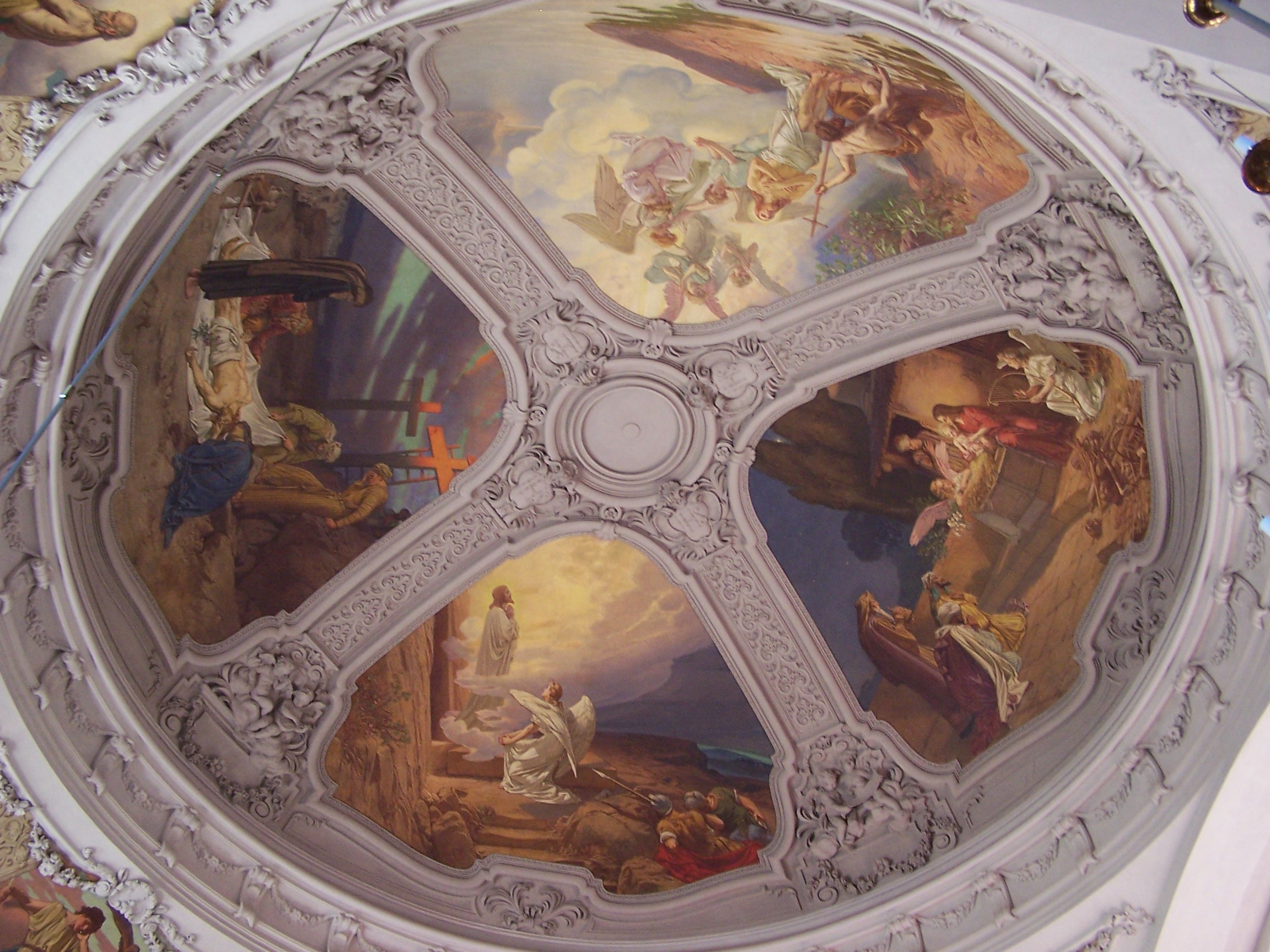 Adolf Fredriks kyrka, Stockholm - Ceiling painting